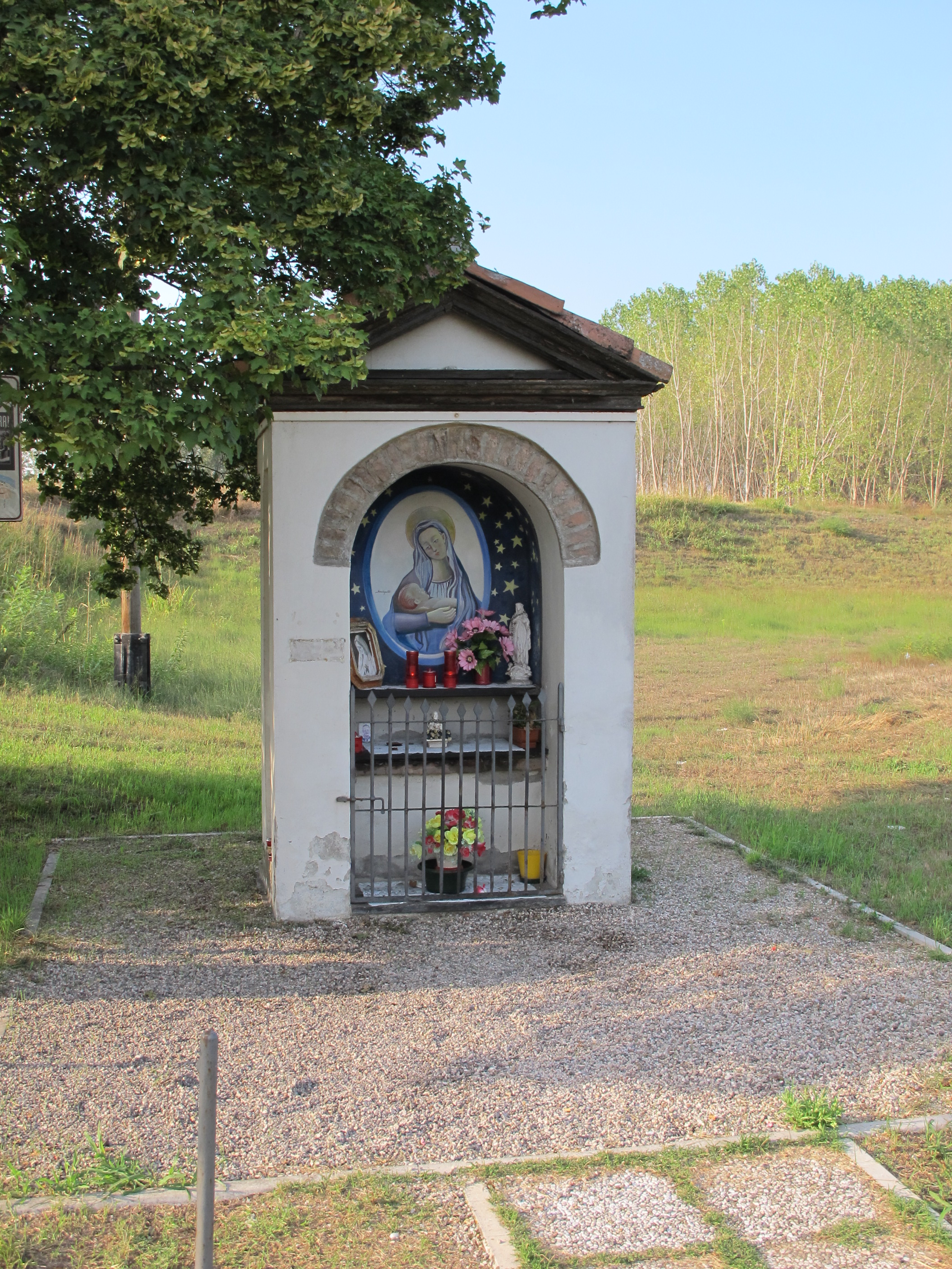 Italy, Brescello,Madonnina del Borghetto